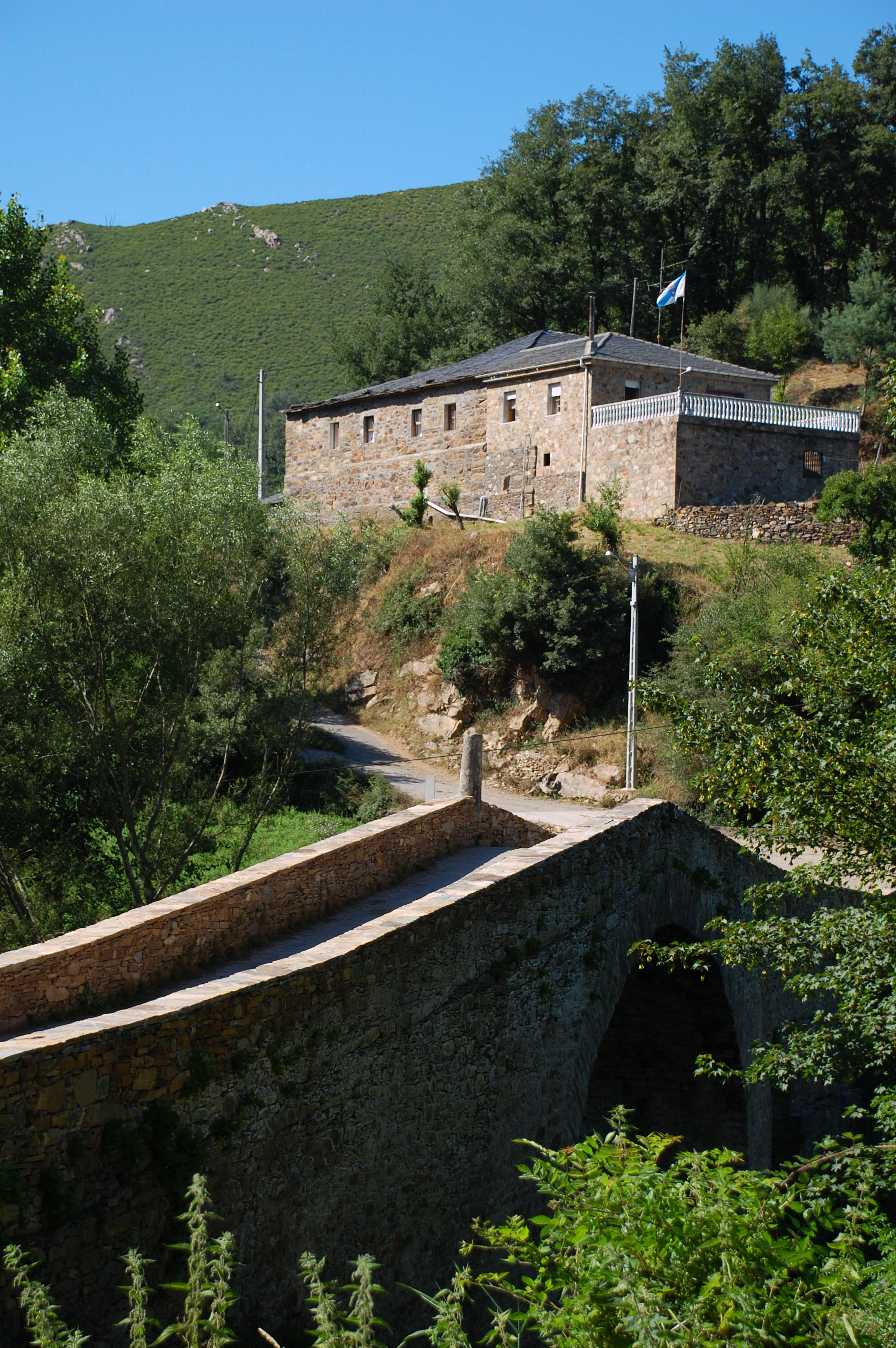 This is a photography of a Special Area of Conservation in Spain with the ID: ES1120001. Natura2000 entry, EEA entry